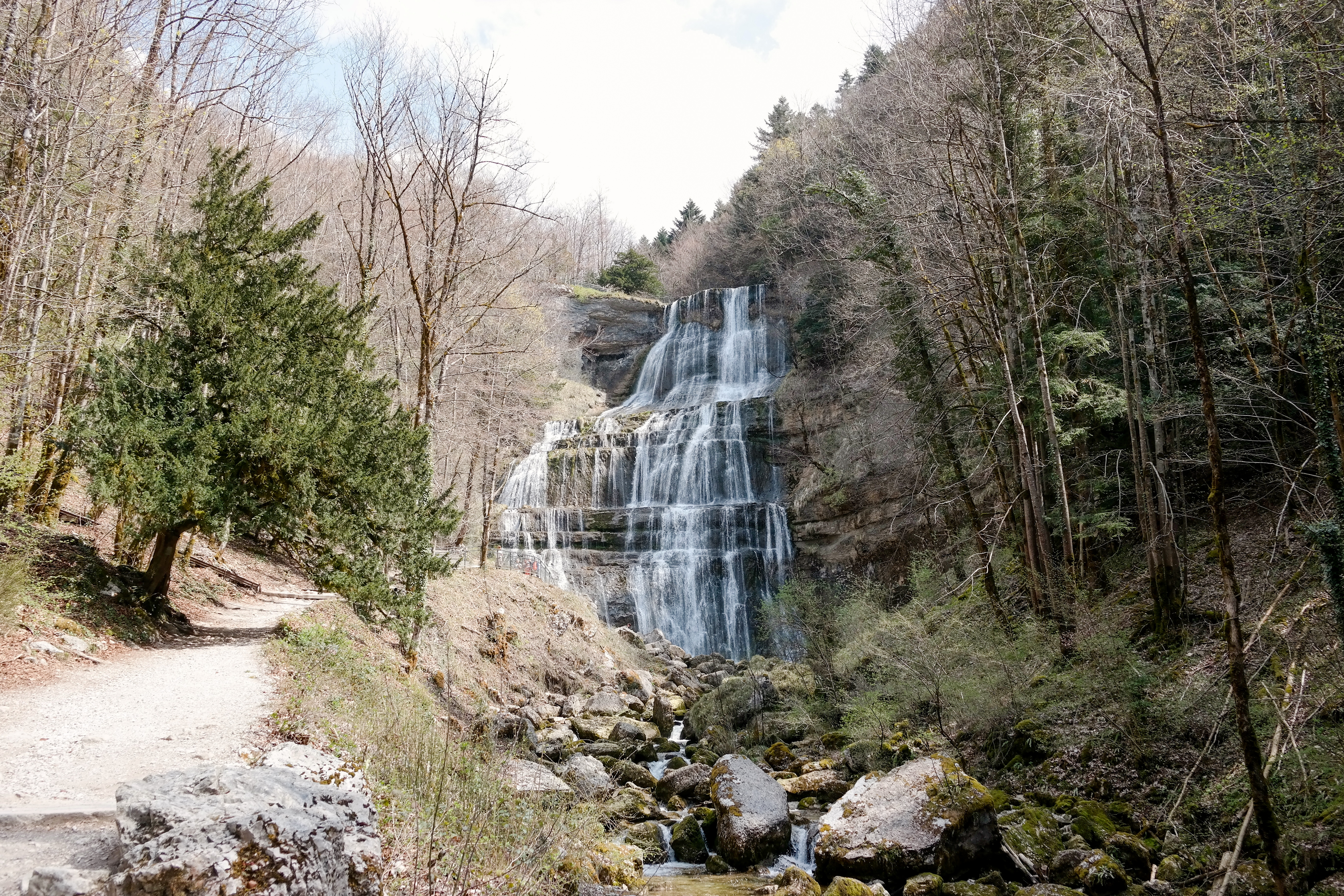 Cascade de l'Eventail